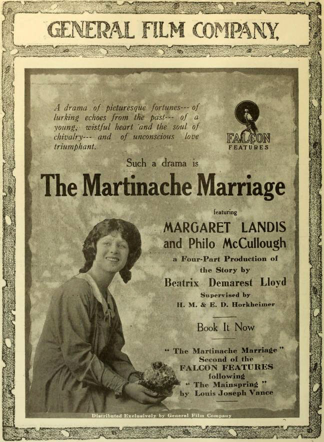 Advertisement in Moving Picture World for the film The Martinache Marriage (1917).